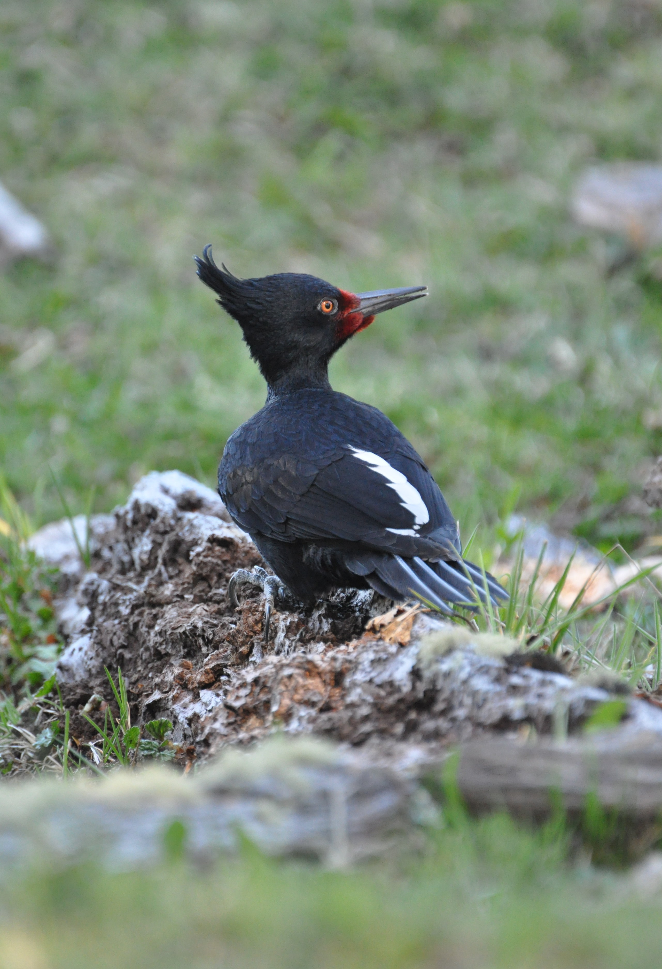 Magellanic Woodpecker Female (Campephilus magellanicus), National Park of Tierra del Fuego, Tierra del Fuego, Argentina